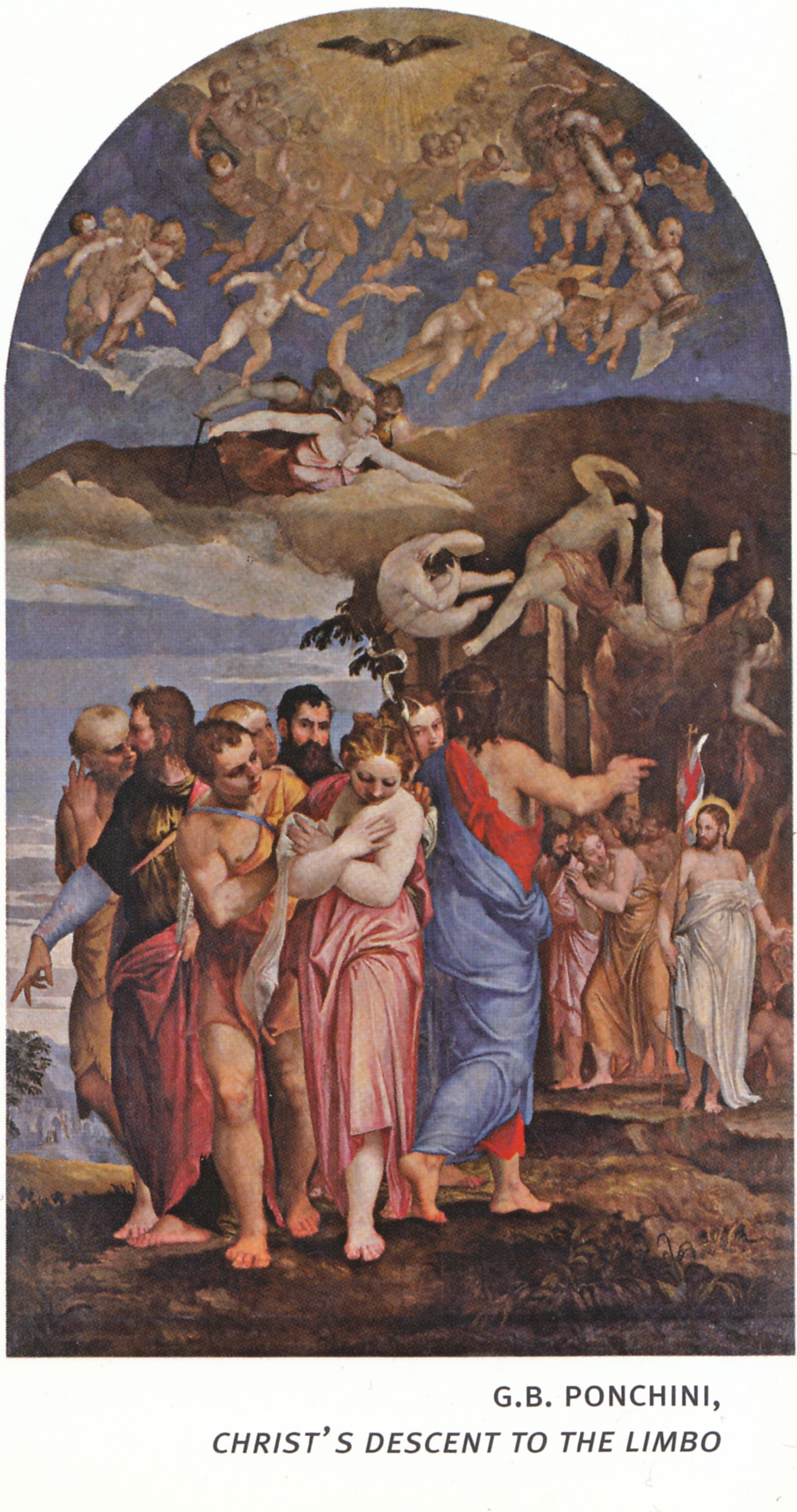 Descent of christ to the limbo